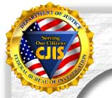 Seal of the National Crime Information Center (NCIC), USA. — “Servicing Our Citizens”